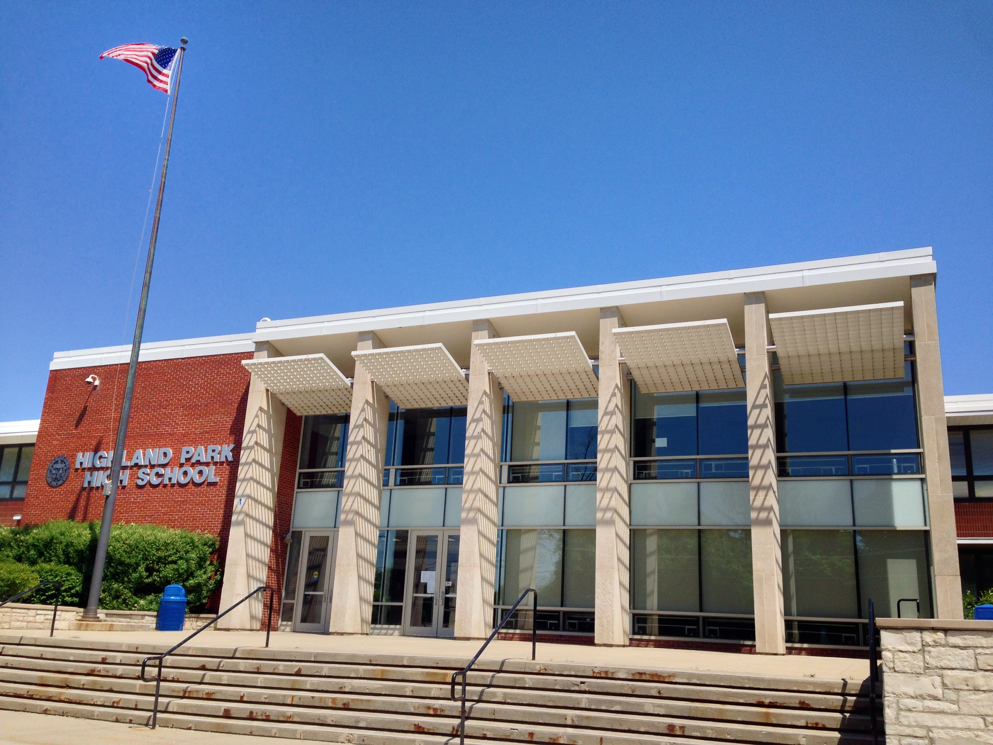 Highland Park High School (Highland Park, Illinois), USA - June 2014